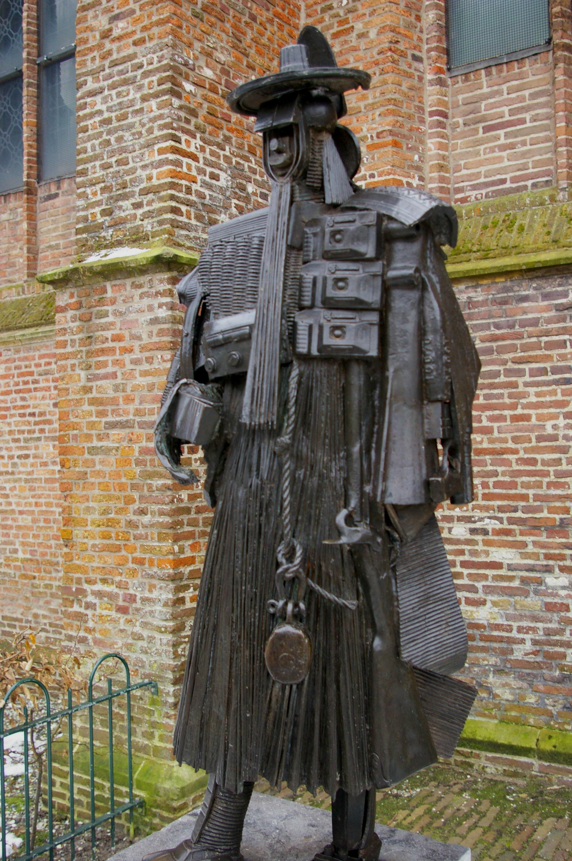 Statue commemorating Jan Jansz. Weltevree, a 17-th century Dutch sailor who was taken prisoner in Korea and became an advisor to the king of Korea, in De Rijp, the Netherlands.